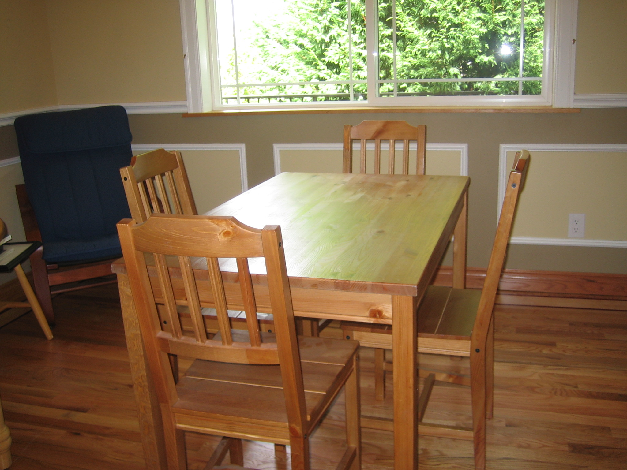 Wooden kitchen table and chairs